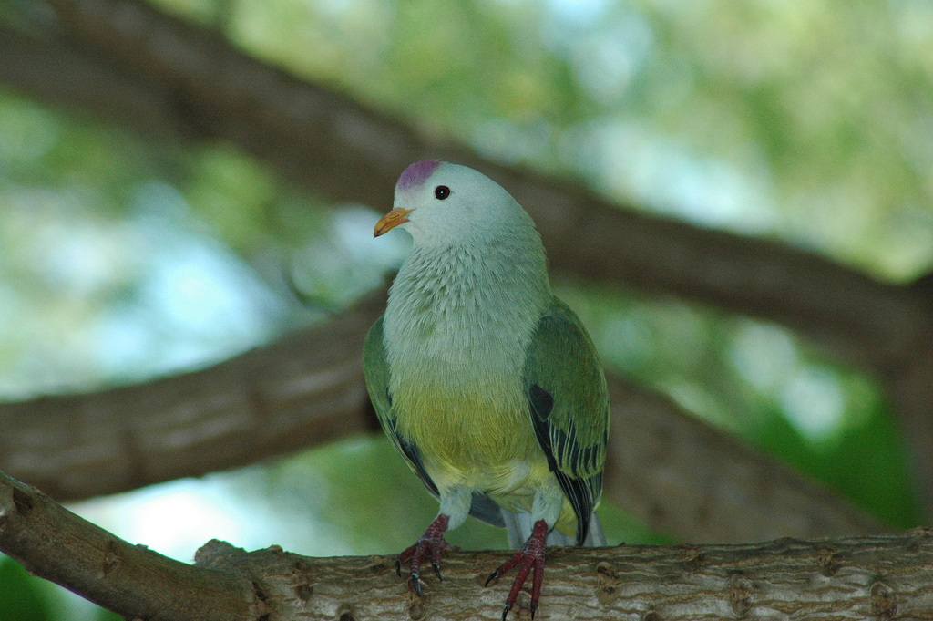 "The O'o, a native fruit dove to the Tuamotu Islands. Atoll Fruit-dove, Ptilinopus coralensis, O'o (north and south Tuamotu), Kuku (Mangareva). 20 cm. Widespread in the Tuamotu, the Fruit-dove of this archipelago disappeared from the Gambier where it was formerly present. It lives the forests of the atolls, where it eats the leaves of the "tafano" or "kahaia" (Guettardia speciosa), tree with odorous flowers. It also eats fruits and seeds."